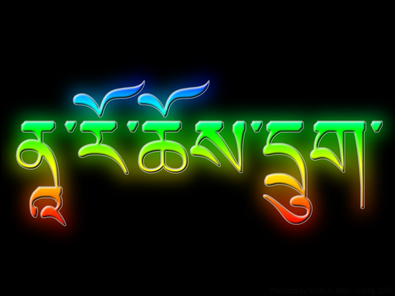 Typographical illustration of nA ro chos drug in tibetan glyphs